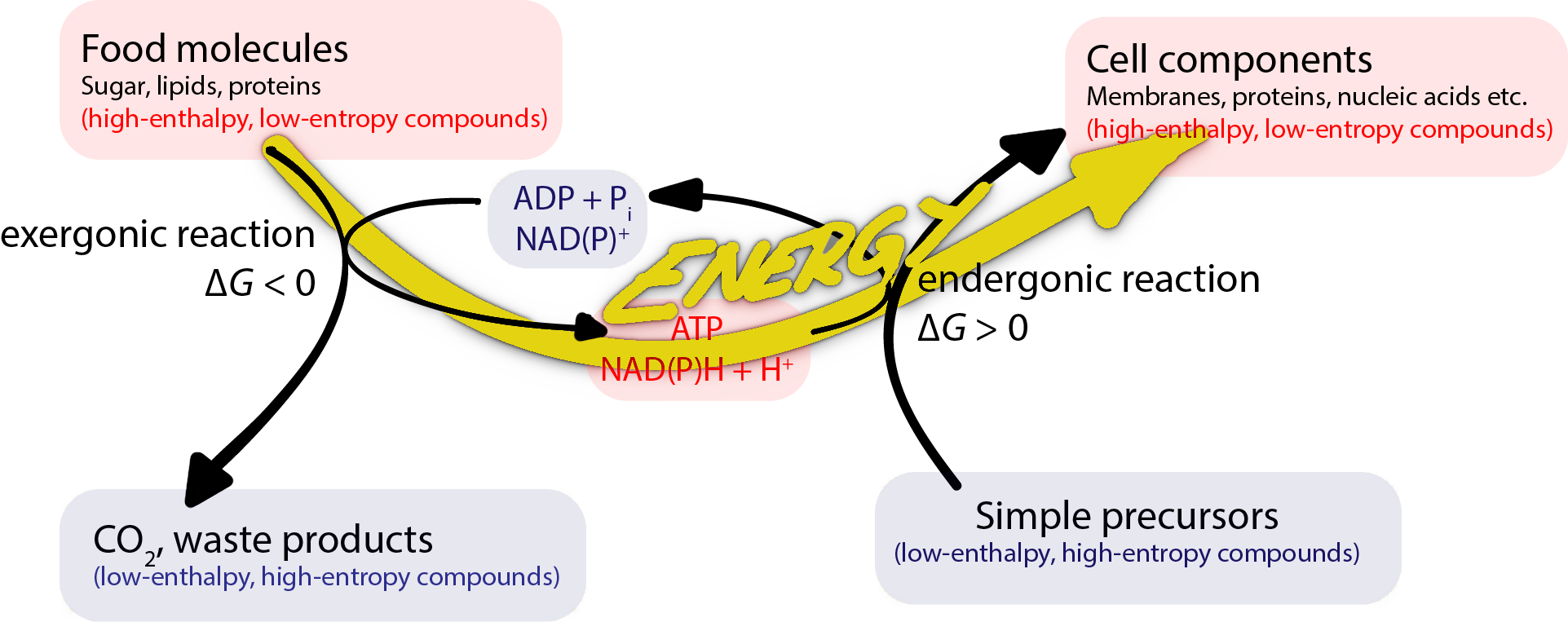 Organisms are not at equilibrium. They require a continuous influx of free energy to maintain order. Organisms maintain their non-equilibrium status by coupling the exergonic reactions of nutrient oxidation to the endergonic processes required to maintain the living state (such as the performance of mechanical work, the active transport of molecules against concentration gradients, and the biosynthesis of complex molecules). ATP and NADH serve as energy carriers that link the breakdown of food and biosynthesis of cellular compounds.